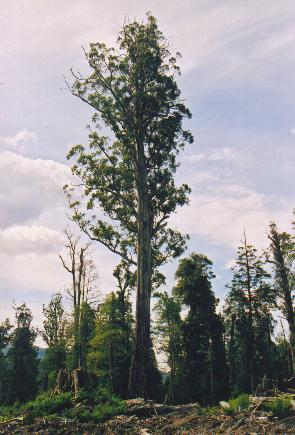 Tasmania, Styx valley. This Eucalyptus regnans, named El Grande by the Wilderness Society, was the most massive in the Styx Valley. It could not legally be logged because its height exceded 80 metres. It was accidentally killed in 2002 during the burning-off of debris after the trees around it were clear-felled by Gunns Ltd, the major logging and wood-chip enterprise in Tasmania's State Forests. The stump of a companion tree of great size, but presumably less than the proscribed 85 metres (280 feet) can be seen to the left foreground.